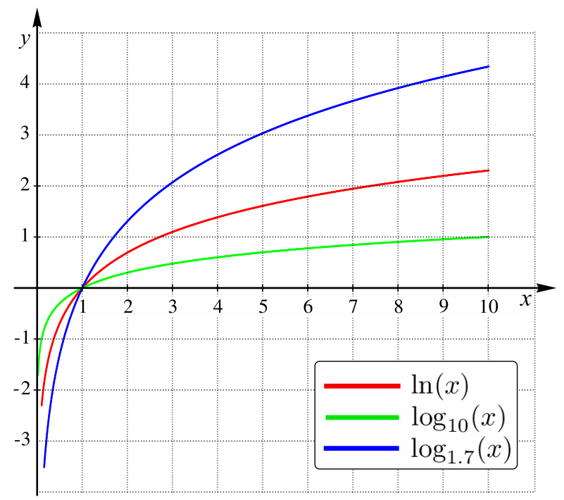 Examples of logarithms